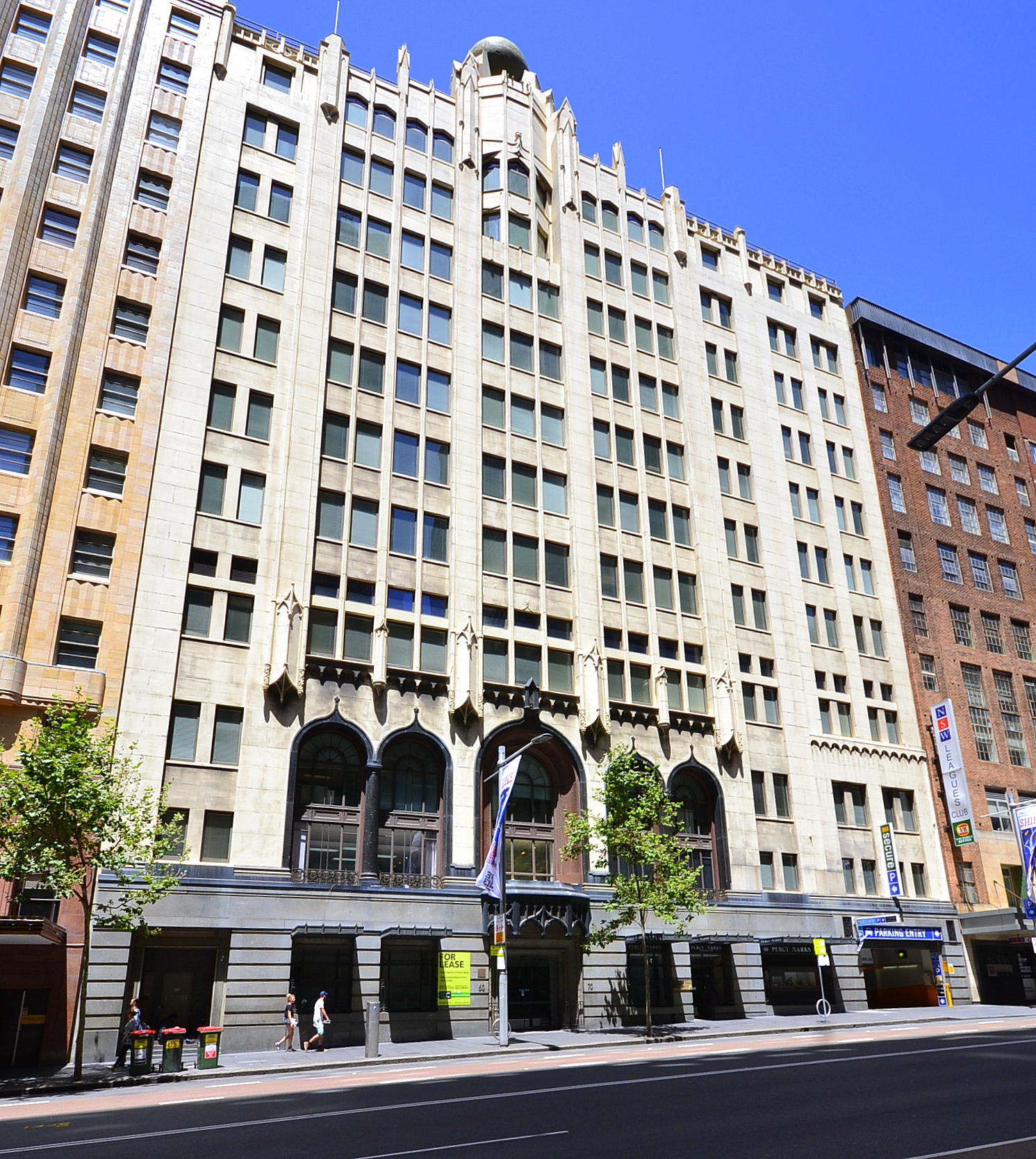 the former Sun Building, now GIO Building, in Elizabeth Street, in the Sydney central business district, Sydney, New South Wales, Australia (example of Skyscraper Gothic style)